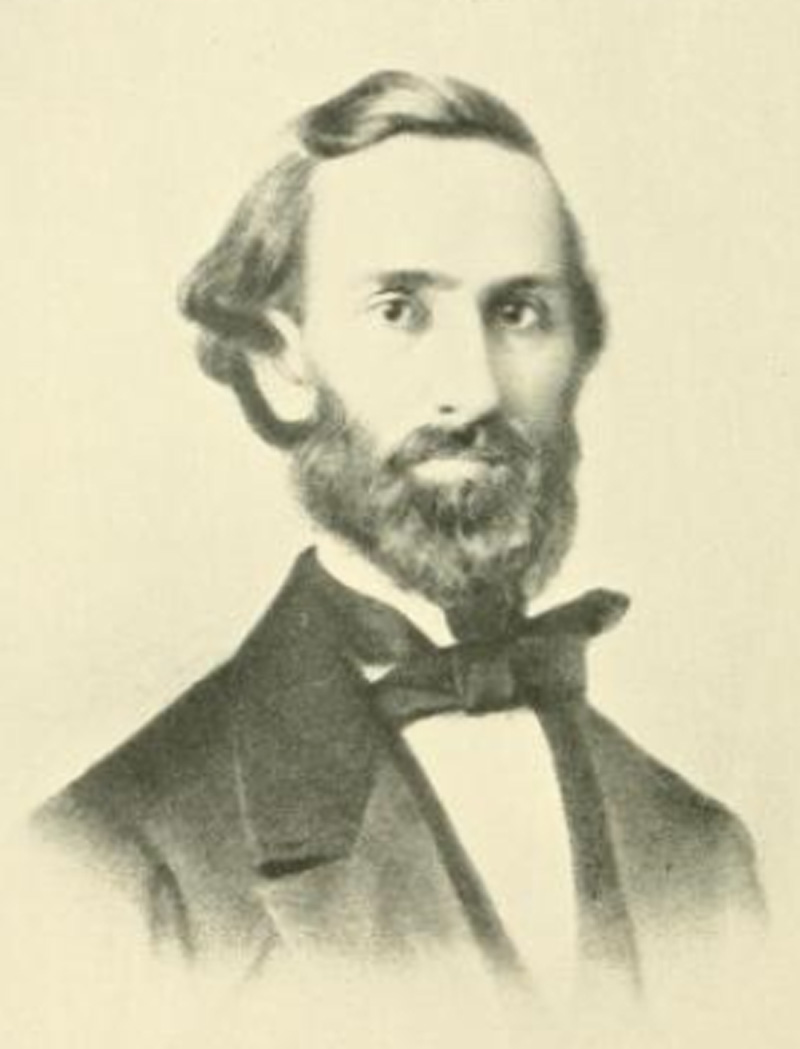 Benjamin Hale Buckingham, prominent businessman in Chicago, circa 1860. He was the father of Rose Selfridge, wife of Harry Gordon Selfridge